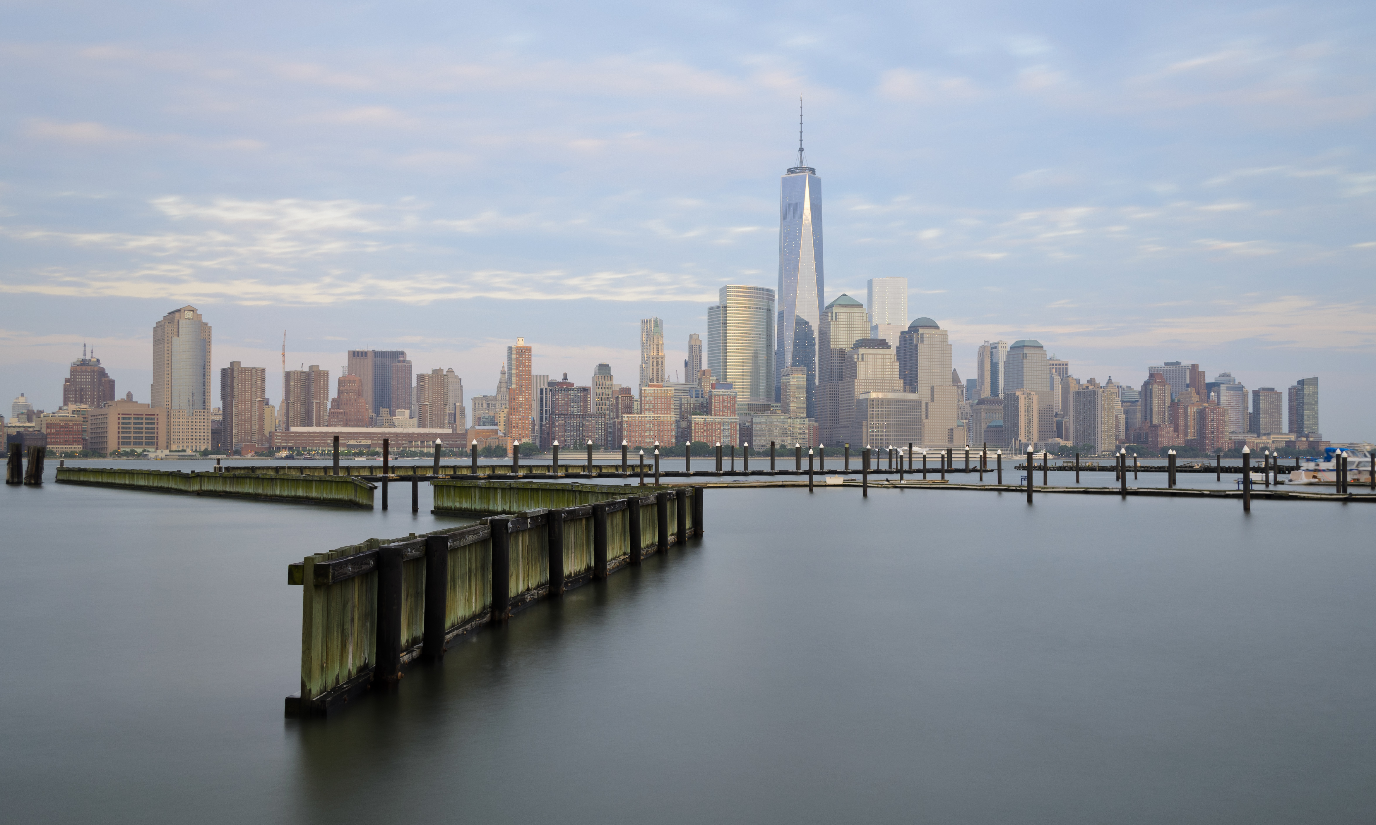 Lower Manhattan, New York City, as viewed from Newport, Jersey City, New Jersey.